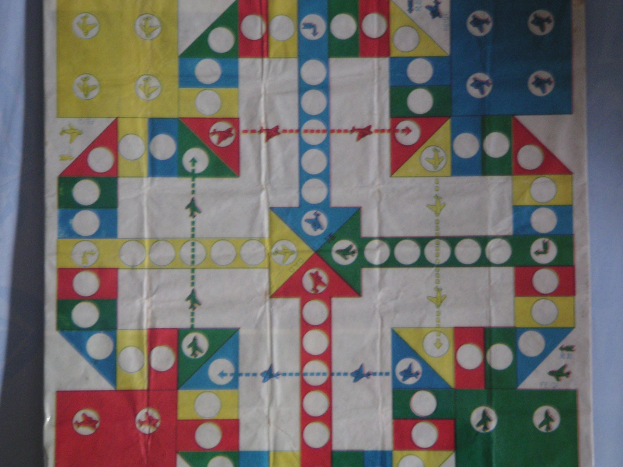 A picture taken by me of my aeroplane chess board.